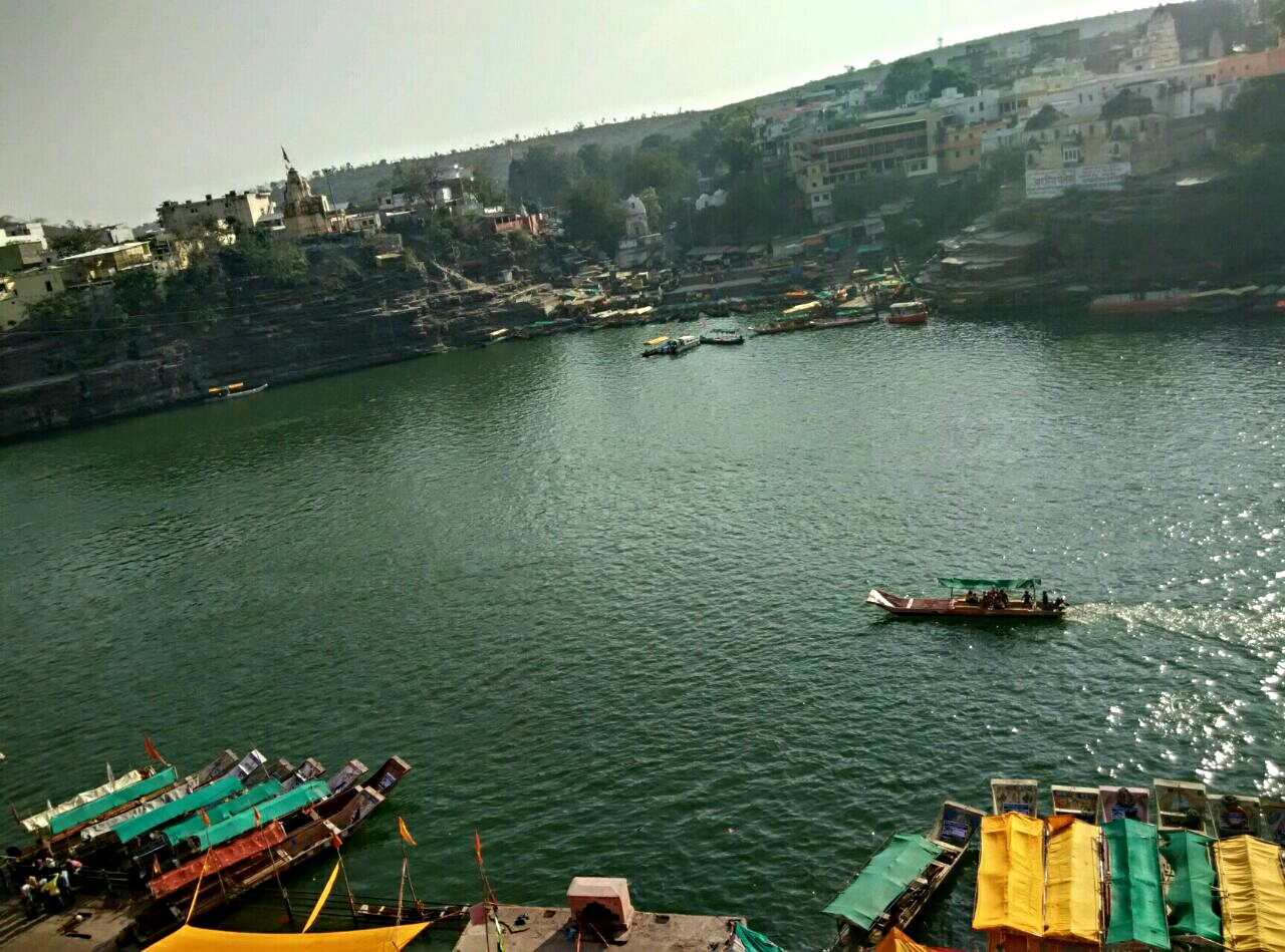 Narmada as viewed from the Omkareshwar temple in Madhya Pradesh India.